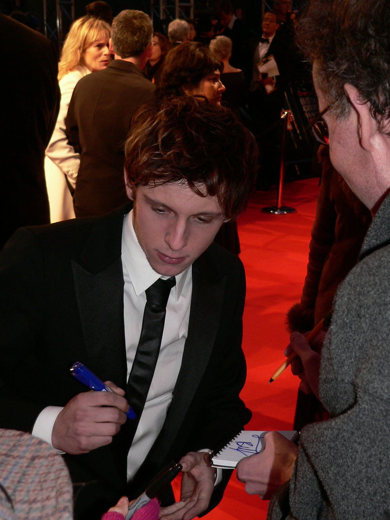 The actor Jamie Bell at 60th British Academy Film Awards